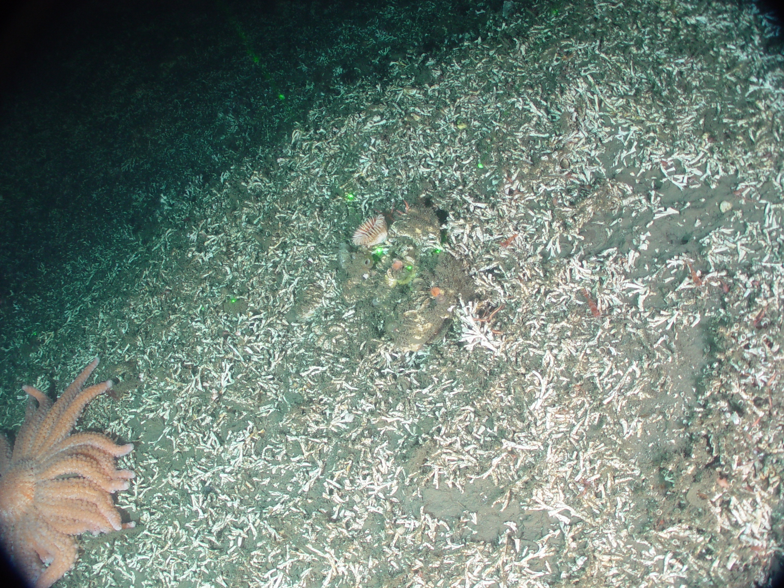 Washington, Olympic Coast NMS